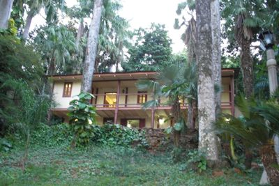 Bertoni's house view toward the river. This house was rebuilt with the help of the Swiss community